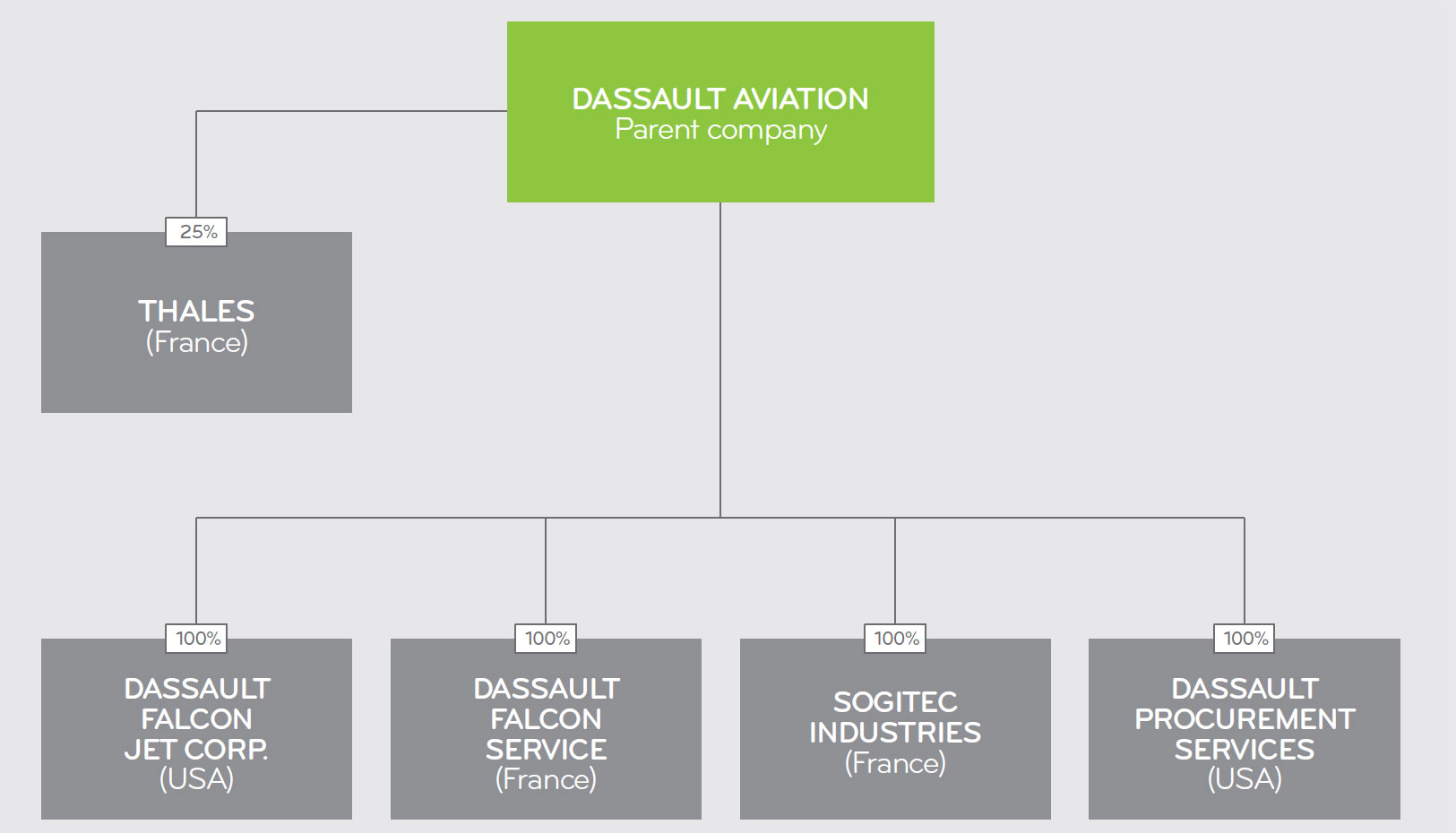 ORGANIZATION CHART OF DASSAULT AVIATION GROUP